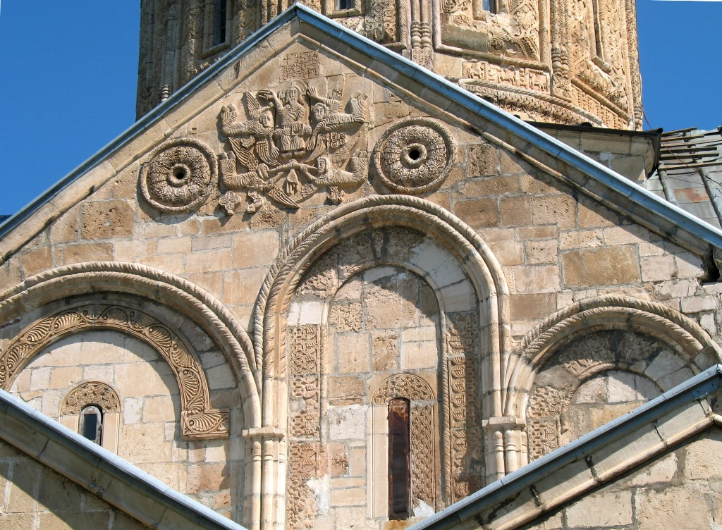 Nikortsminda Cathedral